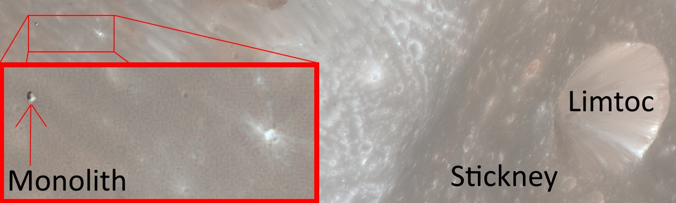 A zoomed-in and labelled part of the public-domain HiRISE image PIA10368 of Phobos, showing the location of the Phobos Monolith